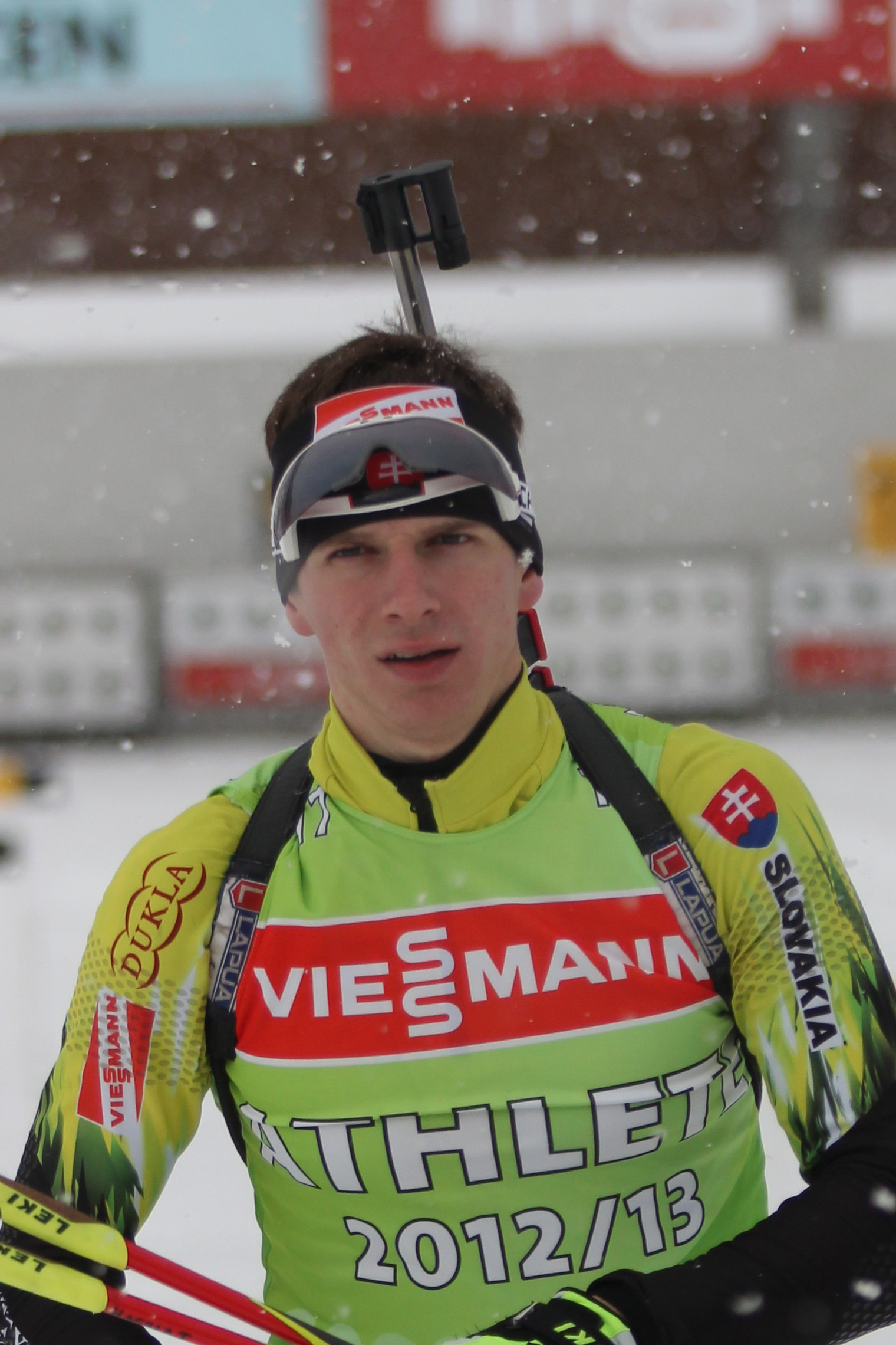 Tomáš Hasilla at Biathlon Weltcup 2012 in Hochfilzen